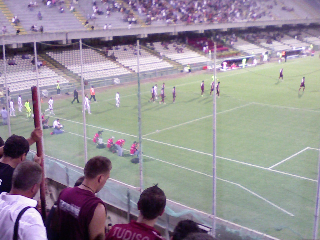 Soccer Match of Coppa Italia (Tim Cup, Italy Cup) 2009-2010 - Salernitana v Benevento 1-0